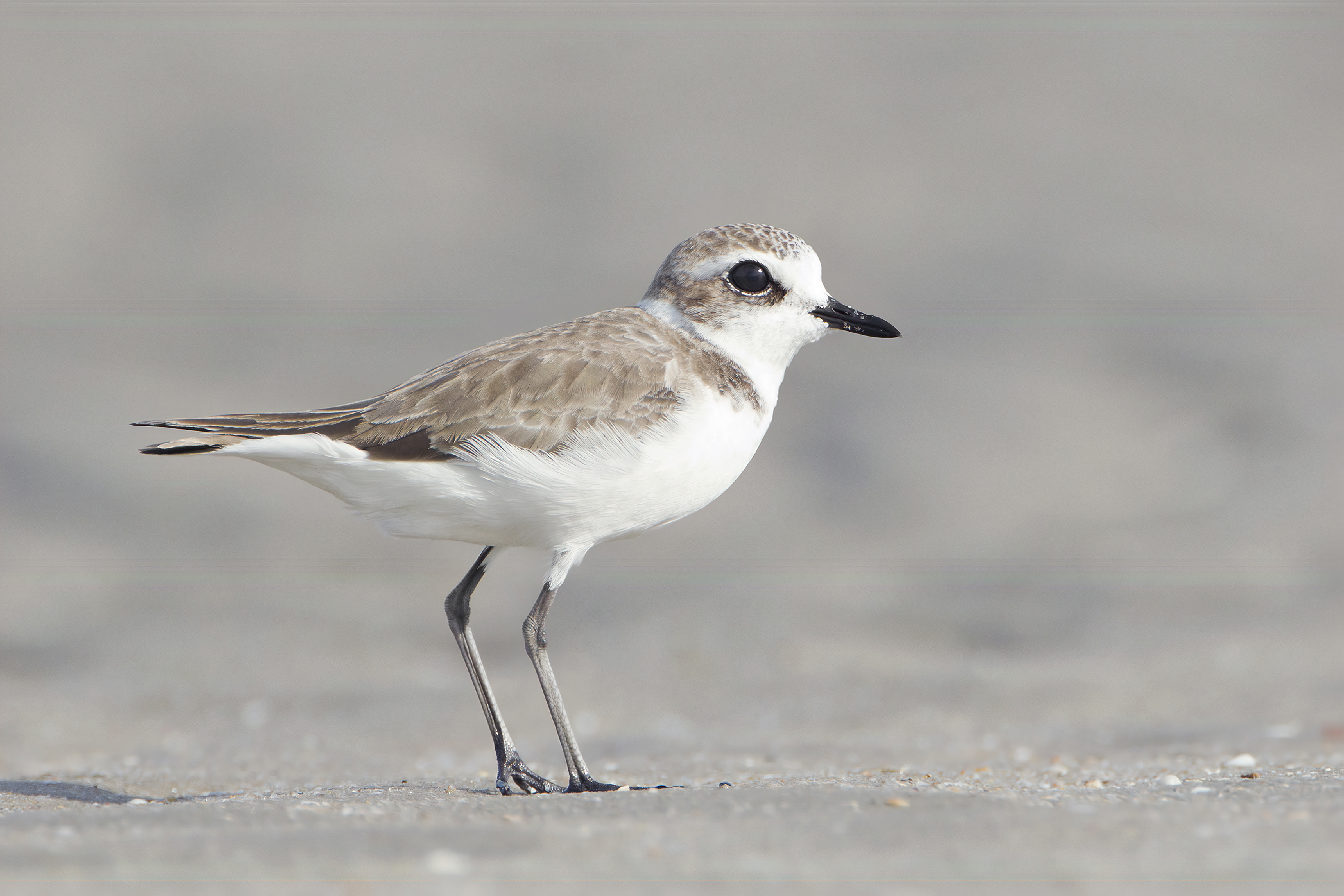 Lesser Sand Plover (Charadrius mongolus), Laem Pak Bia, Petchaburi, Thailand